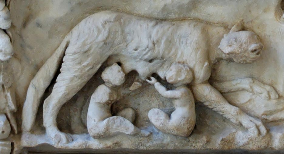 Representation of the lupercal: Romulus and Remus fed by the she-wolf,Lupa, surrounded by representations of the Tiber and the Palatine. Panel from an alter dedicated to the divine couple of Mars and Venus. Marble, Roman artwork of the end of the reign of Trajan (98-117 CE), later re-used under the Hadrianic era (117-132 CE) as a base for a statue of Silvan. From the portico of the Piazzale dei Corporazioni in Ostia Antica.